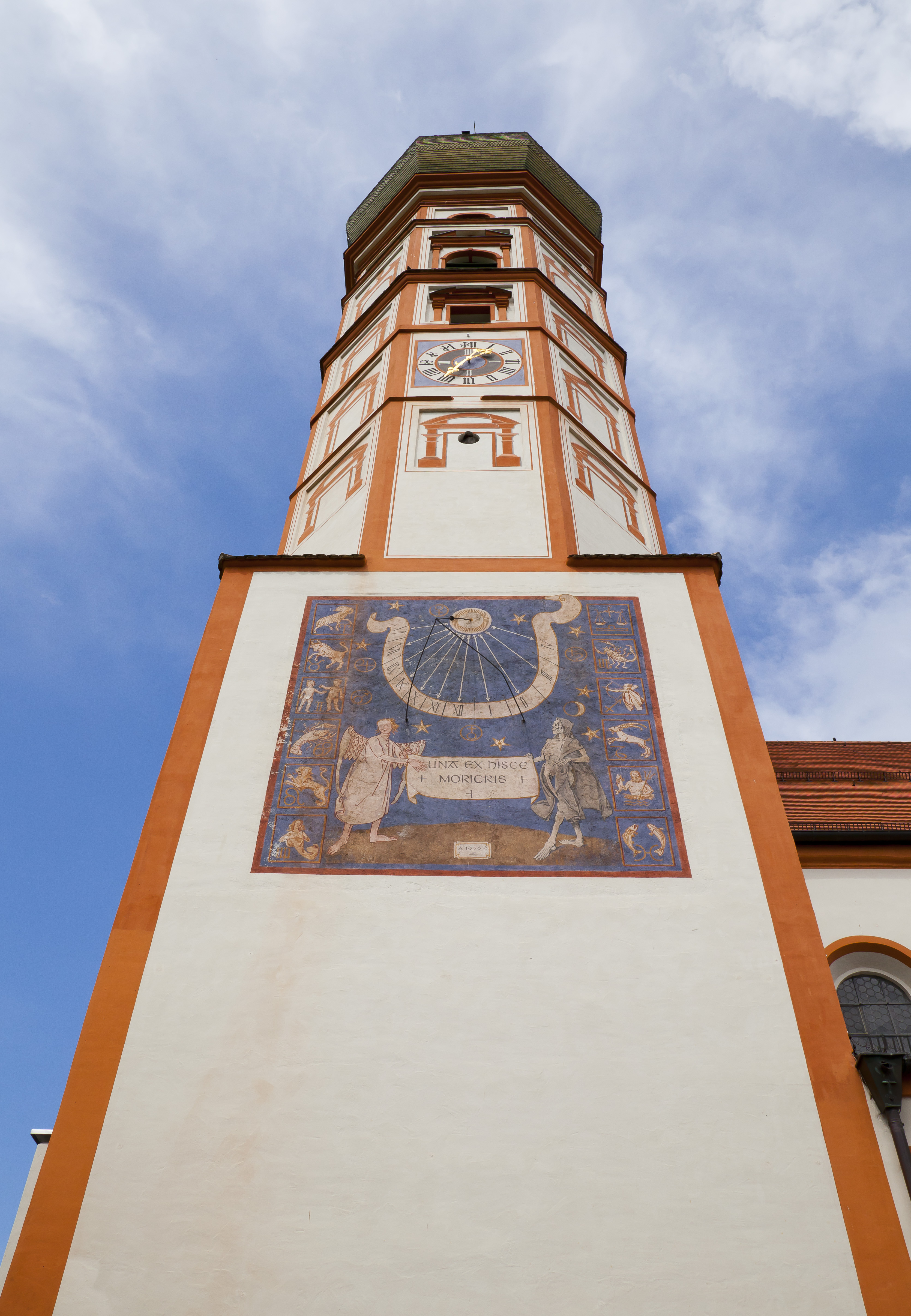 Monastery of Andechs, Germany